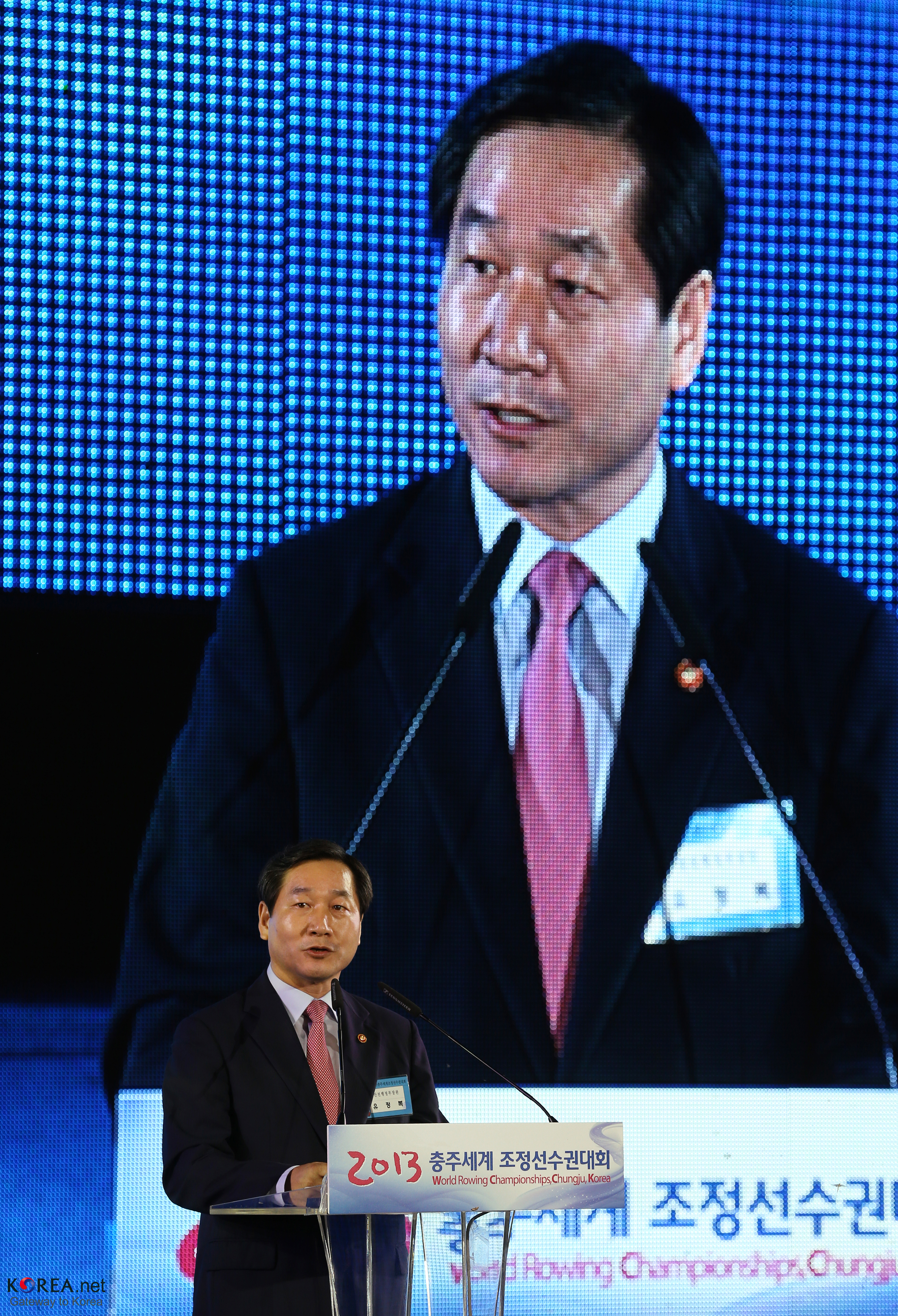 The 2013 World Rowing Championships Yoo Jeon-bok Minister of Security and Public Administration delivers speech at the Opening ceremony of The 2013 World Rowing Championships Tangeum Lake in Chungju, Chungcheongbuk-do 2013.08.24. – 08.25. Related Article -English- World Rowing Championships kicks off in Chungju -中文- 2013忠州世界赛艇锦标赛开幕 - tiếng Việt- Giải Vô địch Đua thuyền Thế giới khai mạc tại Chungju - Deutsch- Ruder-Weltmeisterschaften in Chungju haben begonnen Ministry of Culture, Sports and Tourism Korean Culture and Information Service ( JEON HAN 2013 충주세계조정선수권대회 개막식 유정복 안정행정부 장관이 축사를 하고 있다. 충주 탄금호 국제조정경기장 -코리아넷 기사- 2013 충주세계조정선수권대회, “Rowing(로잉) 시작됐다” 문화체육관광부 해외문화홍보원 코리아넷 전한